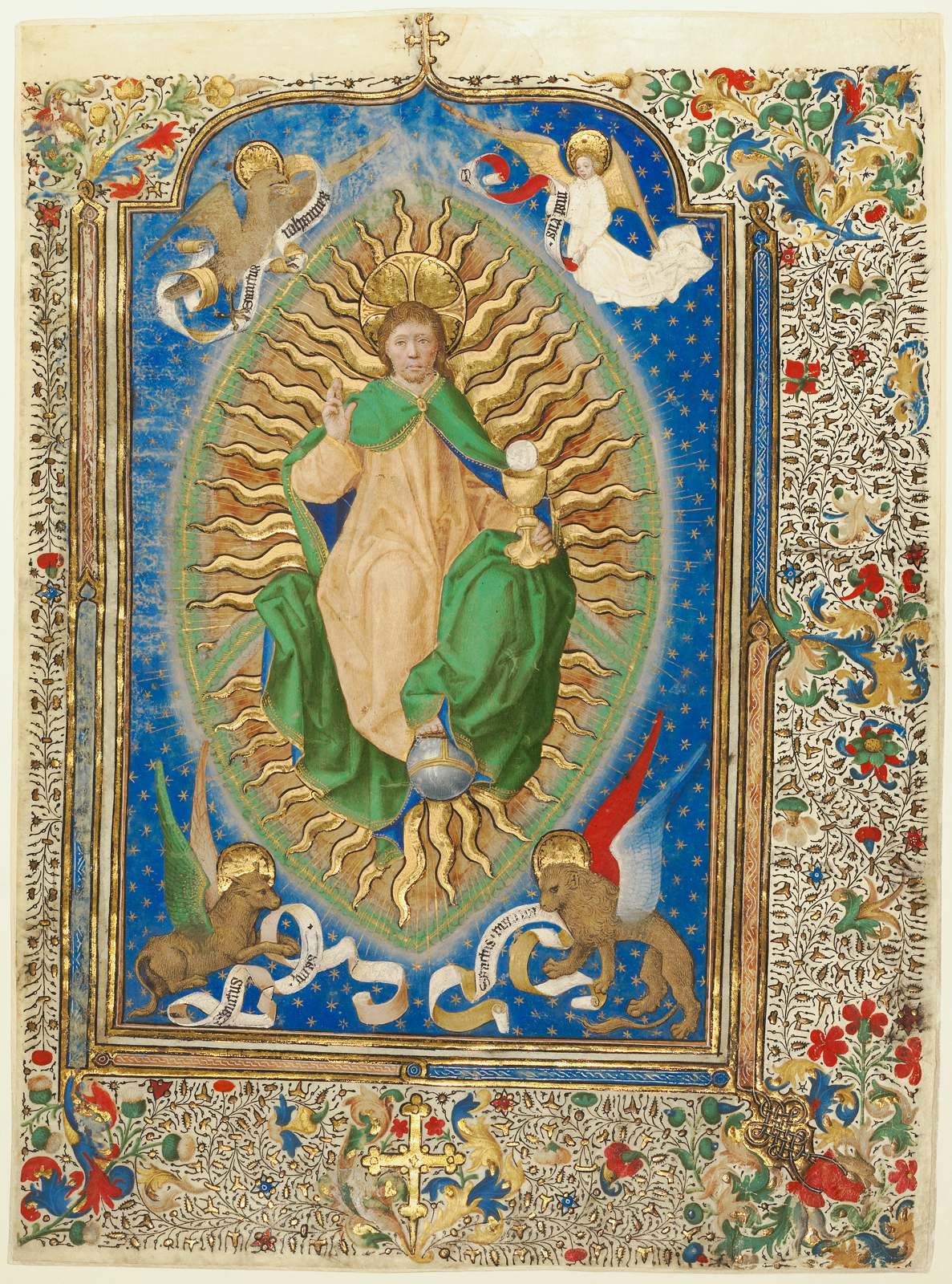 Antoine de Lonhy, Maiestas Domini, (Christ in Majesty) J. Paul Getty Museum, LA